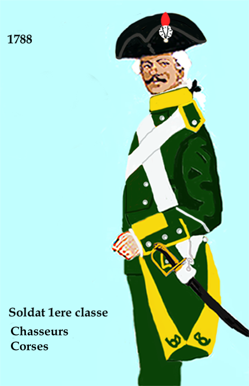 Uniforms of the french rifles of foot in 1788